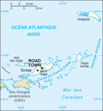 Map in French of the British Virgin Islands